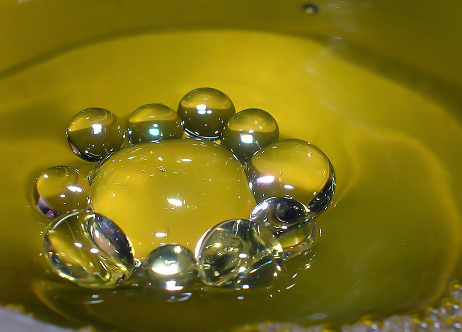 Antibubbles created with soapy water by repeatedly and quickly dipping a small hollow cylinder in and out of the water.